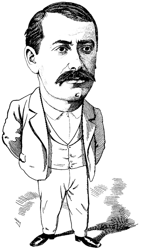 Caricature of Kaietano Sanchez Irure